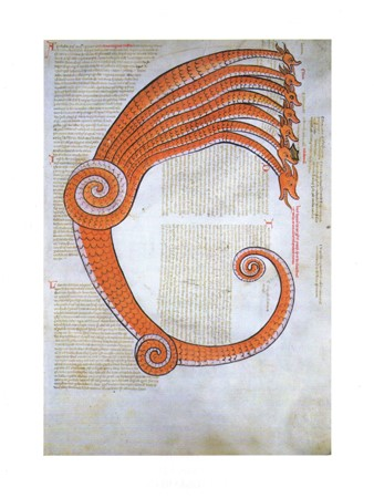 Liber figurarum, tav. 14: The Beast of the Book of Revelation. The first six heads are named after Herodes, Nero, Constantius arrianus (Constantius II), Muhammad, Mesemotus (maybe Abd al-Mu'min), Saladinus (while the seventh head of Antichrist is left anonymous